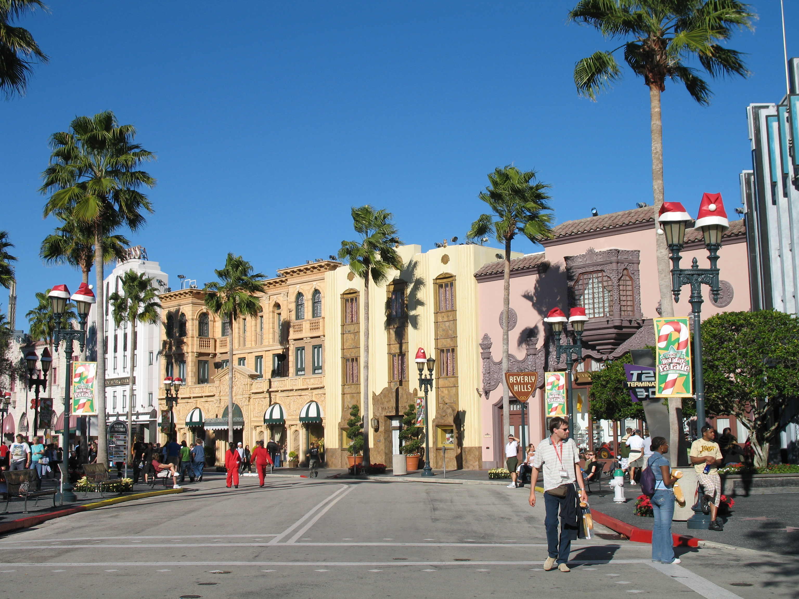 Hollywood at Universal Studios Florida